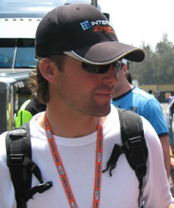 Stanton Barrett at the 2008 NASCAR Nationwide Series event at Mexico City